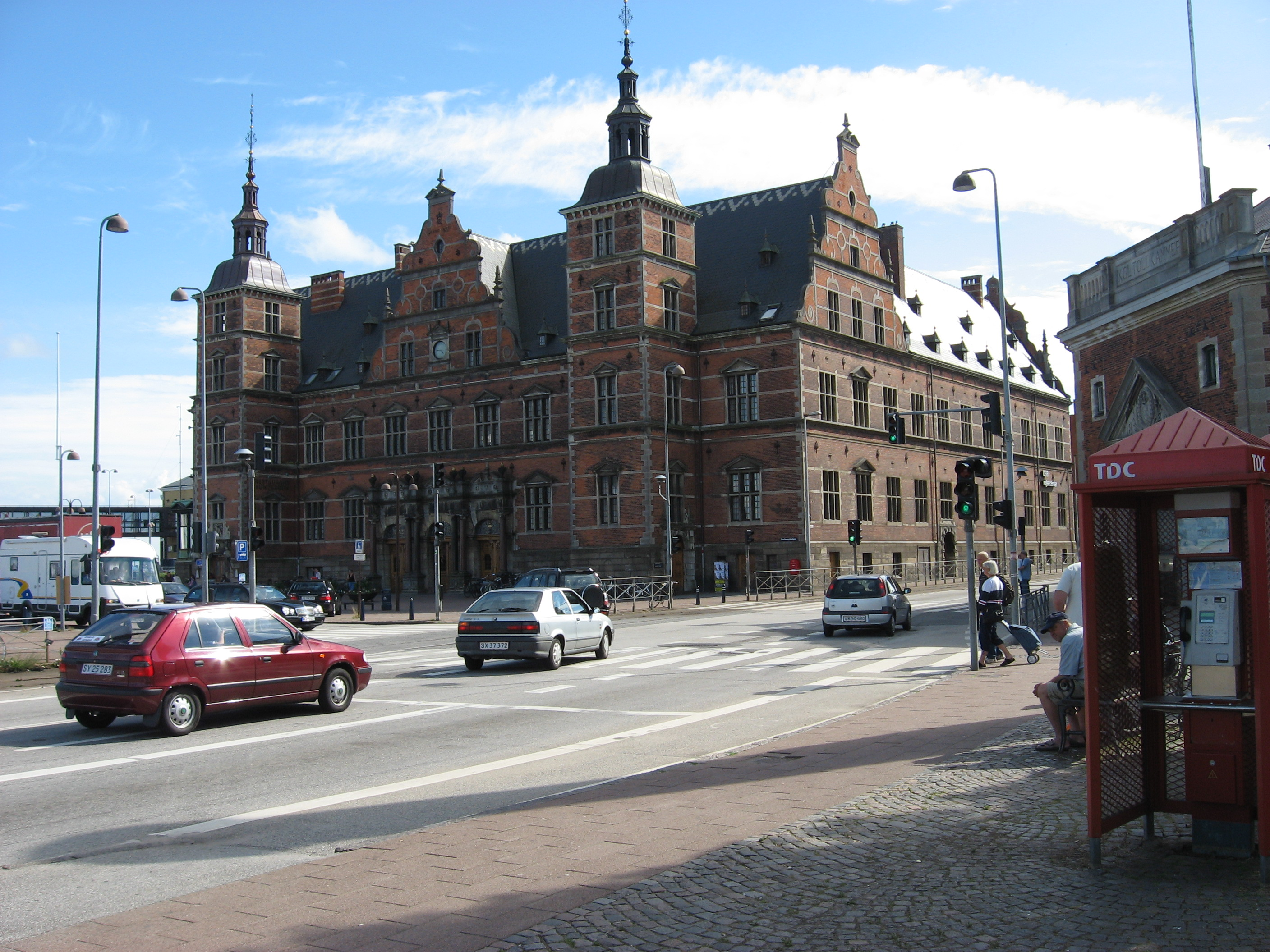 The train station in Helsingor, Denmark